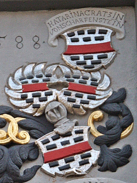 Wappen der Adelsfamilie Kratz von Scharfenstein am Nagelschen Hof in Freinsheim, Hauptstr. 27